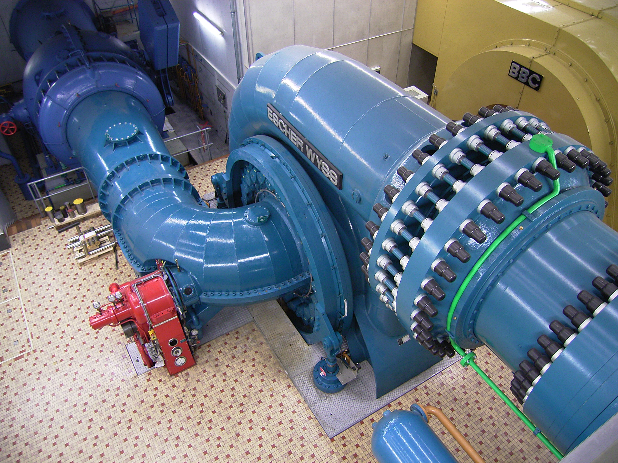 a turbine at the pumped storage plant Bad Säckingen of Schluchseewerk AG